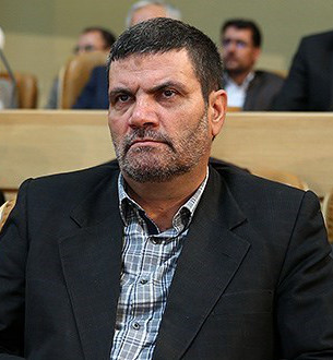 Abolqasem Salavati in the annual conference of Iran Judiciary.